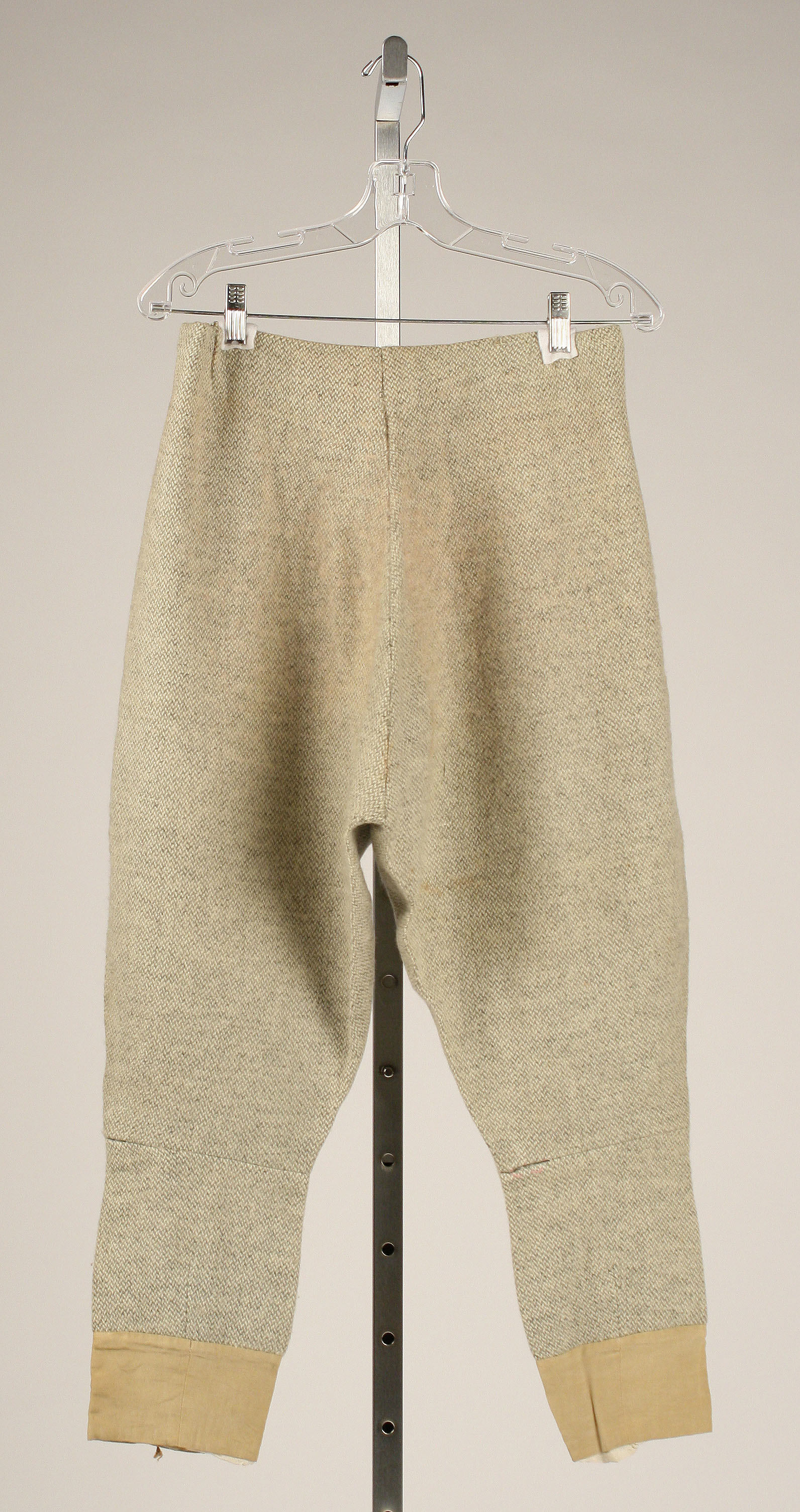 French; Ski trousers